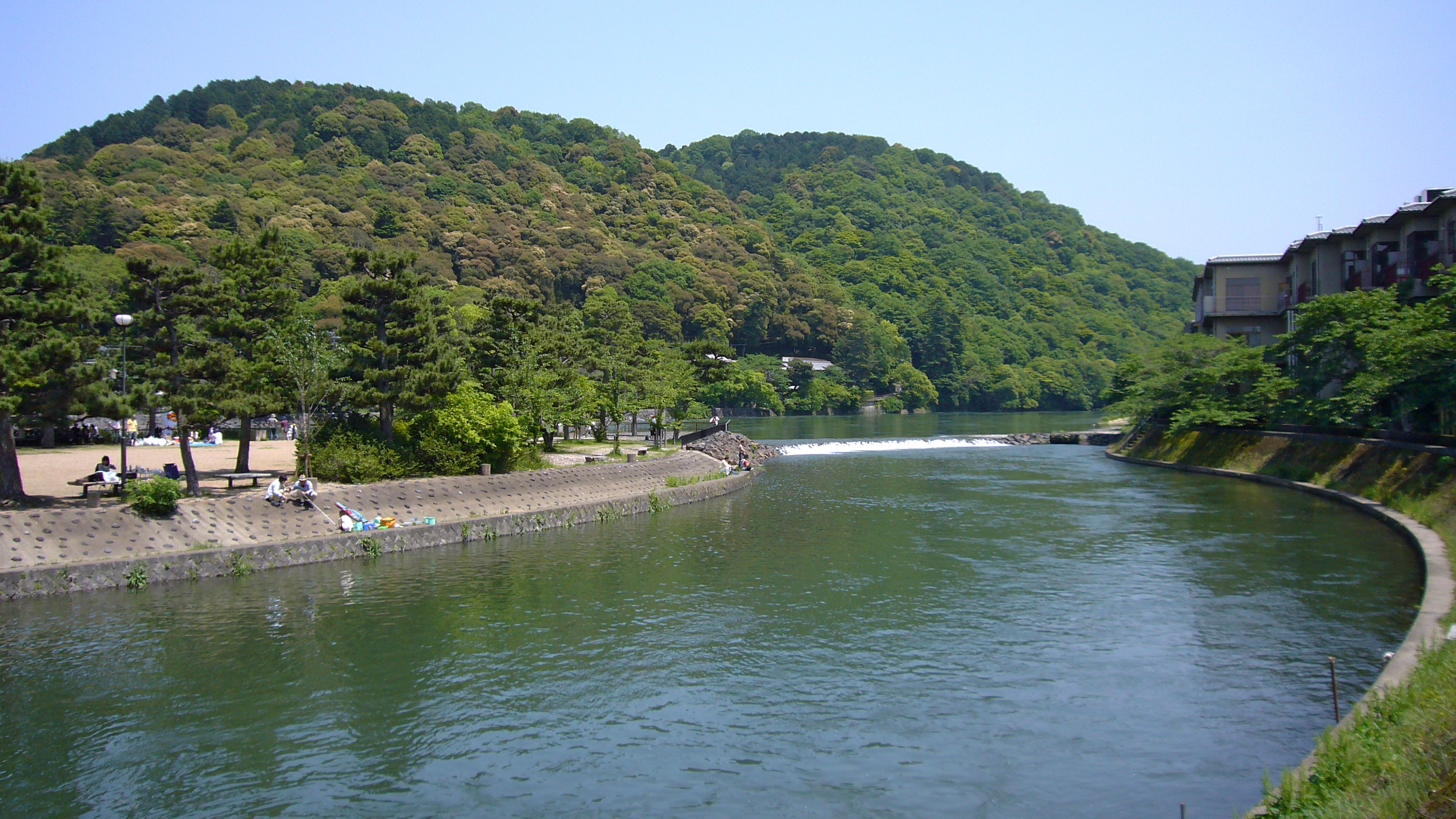 Uji River in Uji, Kyoto prefecture, Japan